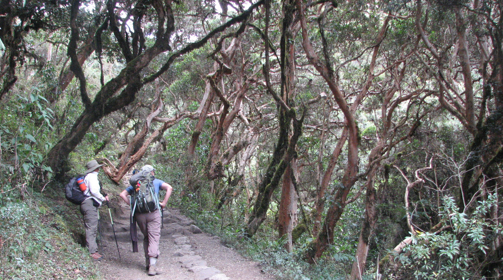 Below "Dead Woman's Pass" on the Inca Trail through the Cloud Forest, 2008